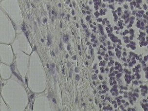 Histology